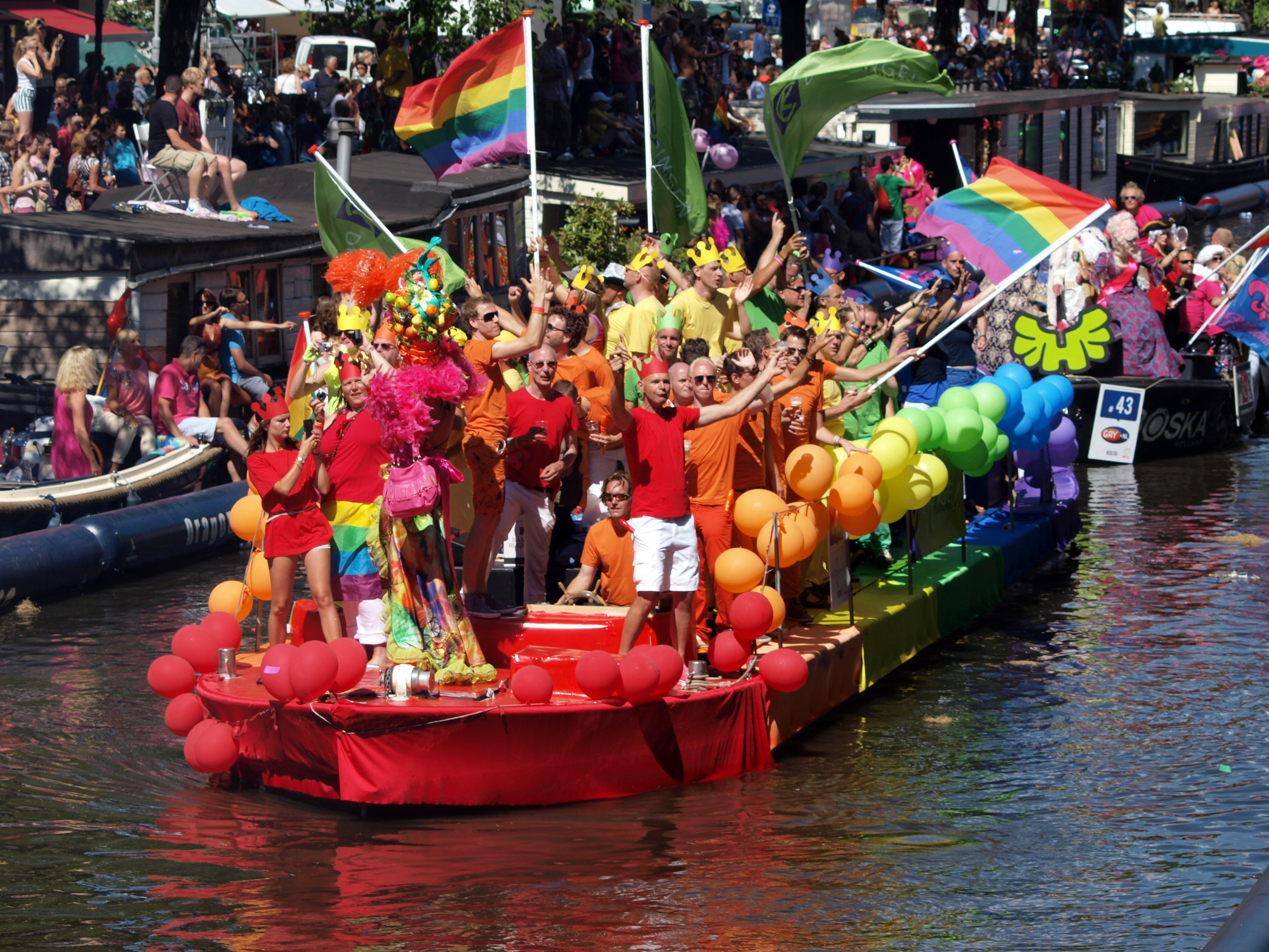 Photographed at the Prinsengracht Amsterdam, the Netherlands.